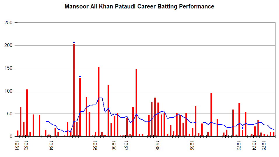 This graph details the Test Match performance of Mansoor Ali Khan Pataudi. It was created by Raven4x4x. The red bars indicate the player's test match innings, while the blue line shows the average of the ten most recent innings at that point. Note that this average cannot be calculated for the first nine innings. The blue dots indicate innings in which Pataudi finished not-out. This graph was generated with Microsoft Excel 2002, using data from Cricinfo and .au.